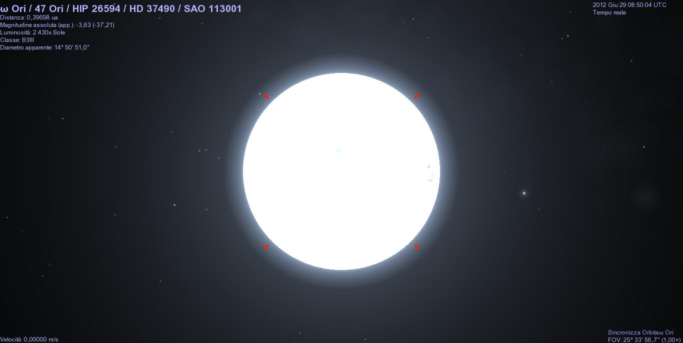 HD 37490 in Celestia